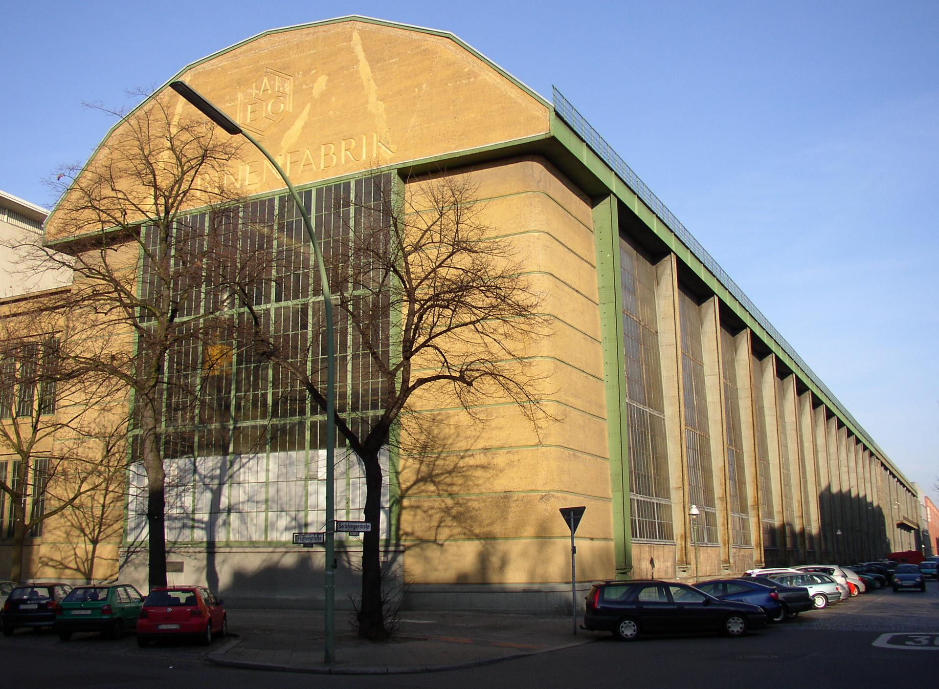 Former AEG factory in Berlin-Moabit, Germany